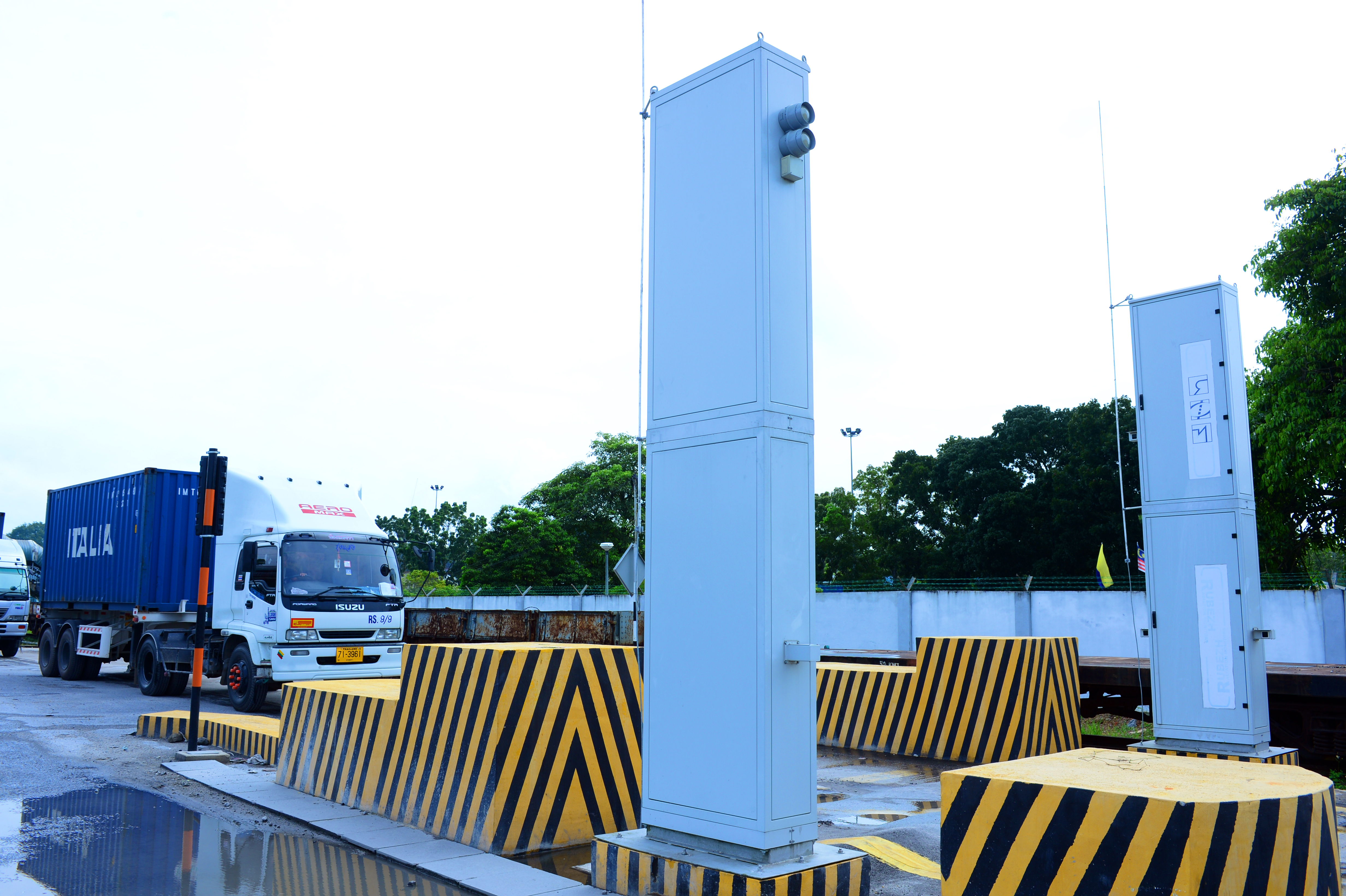 Radiation Portal Monitor scanning trucks at a security checkpoint in Padang Besar, Malaysia.